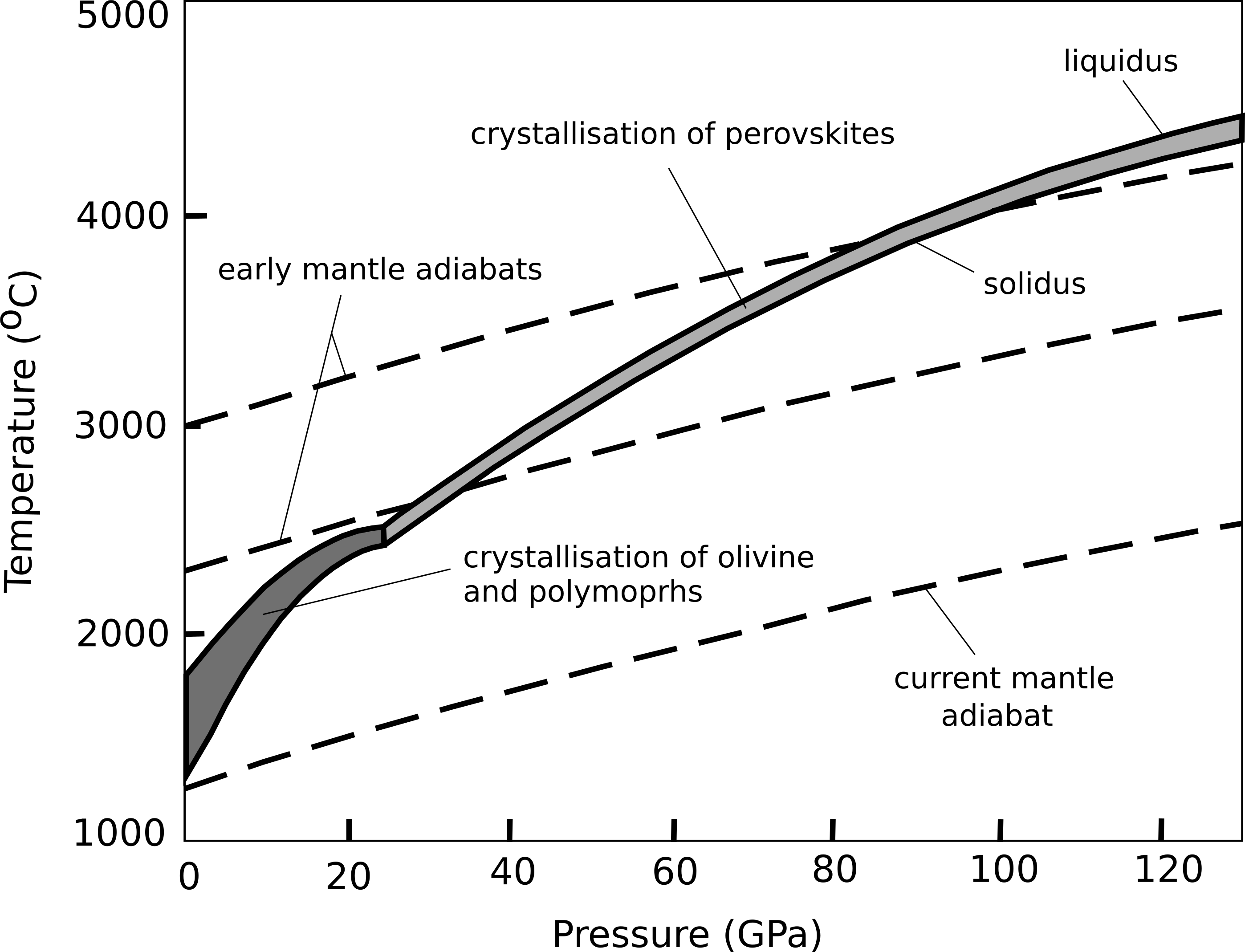 phasediagram of early and present mantle